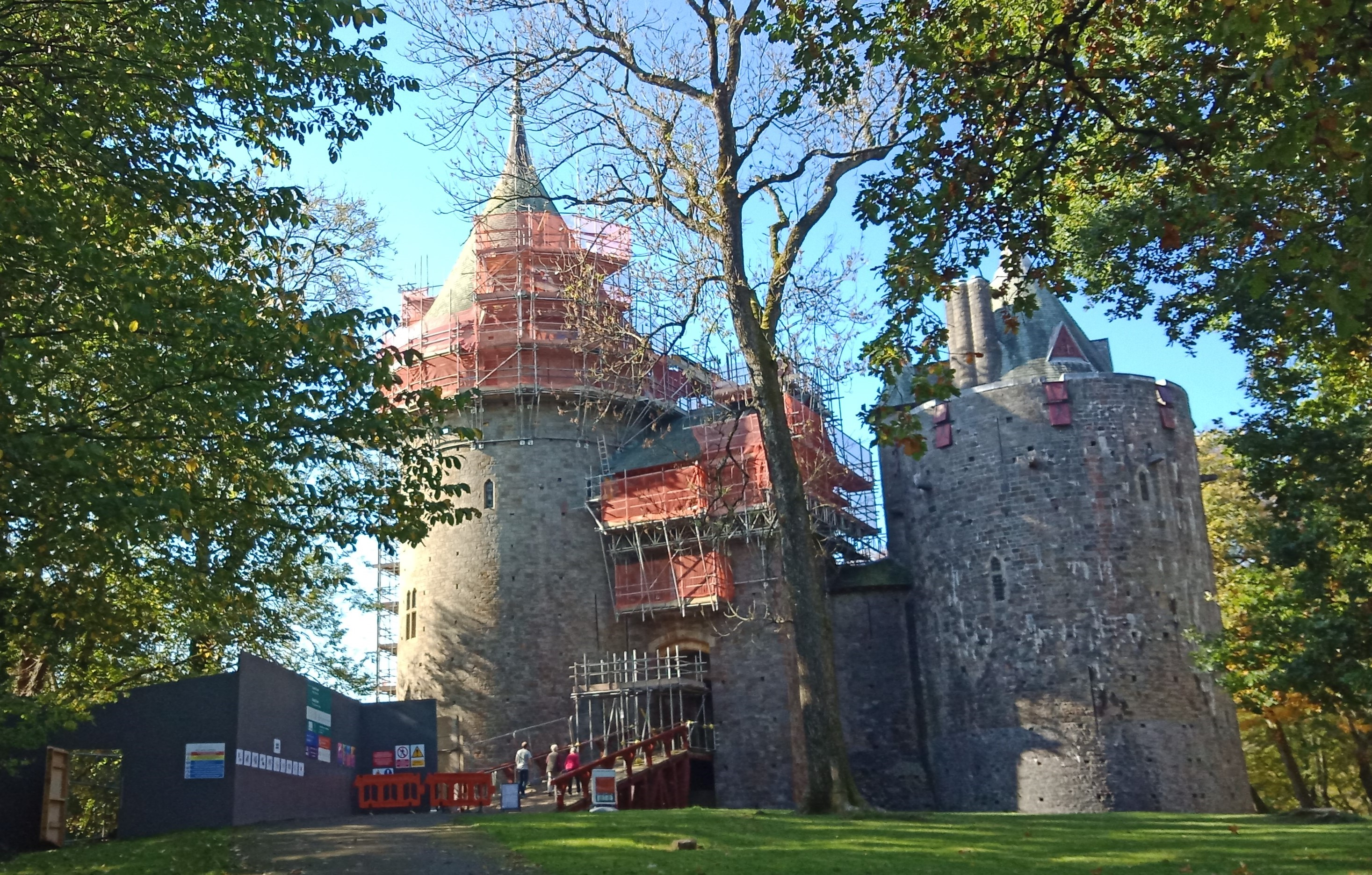 Castell Coch during restoration work in late 2018